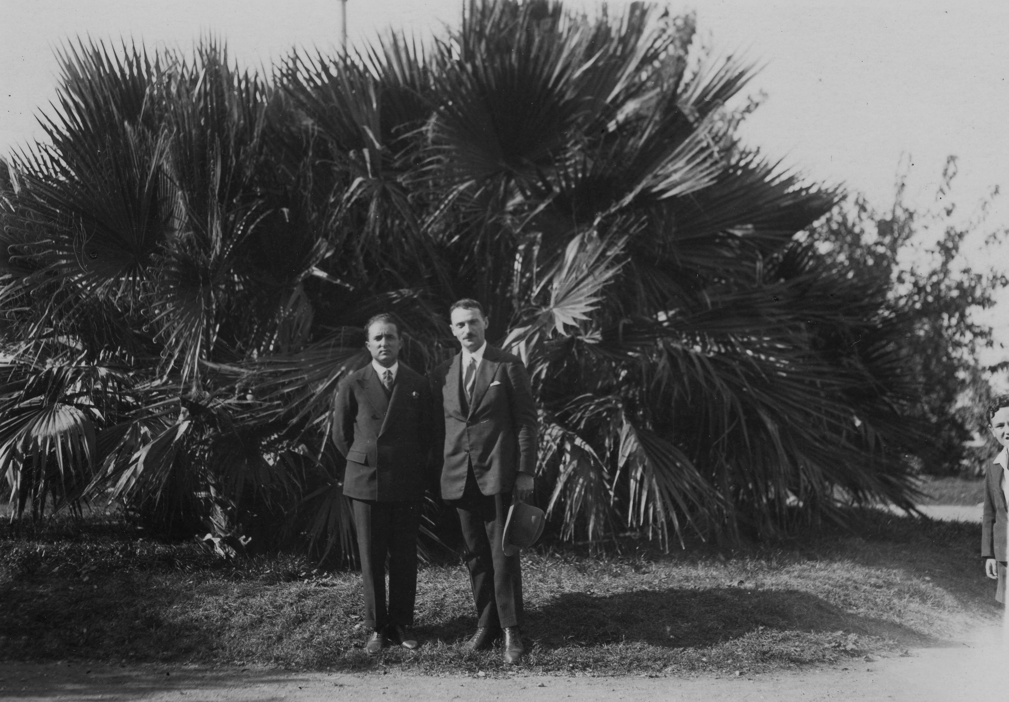 Tadeusz Vetulani (1897–1952), on the right, Polish agriculturalist and biologist, when traveling to Turkey, photographed in the company of an interpreter on the background of palm trees.Tadeusz Vetulani conducted research on types of Arabian horses in Anatolia.